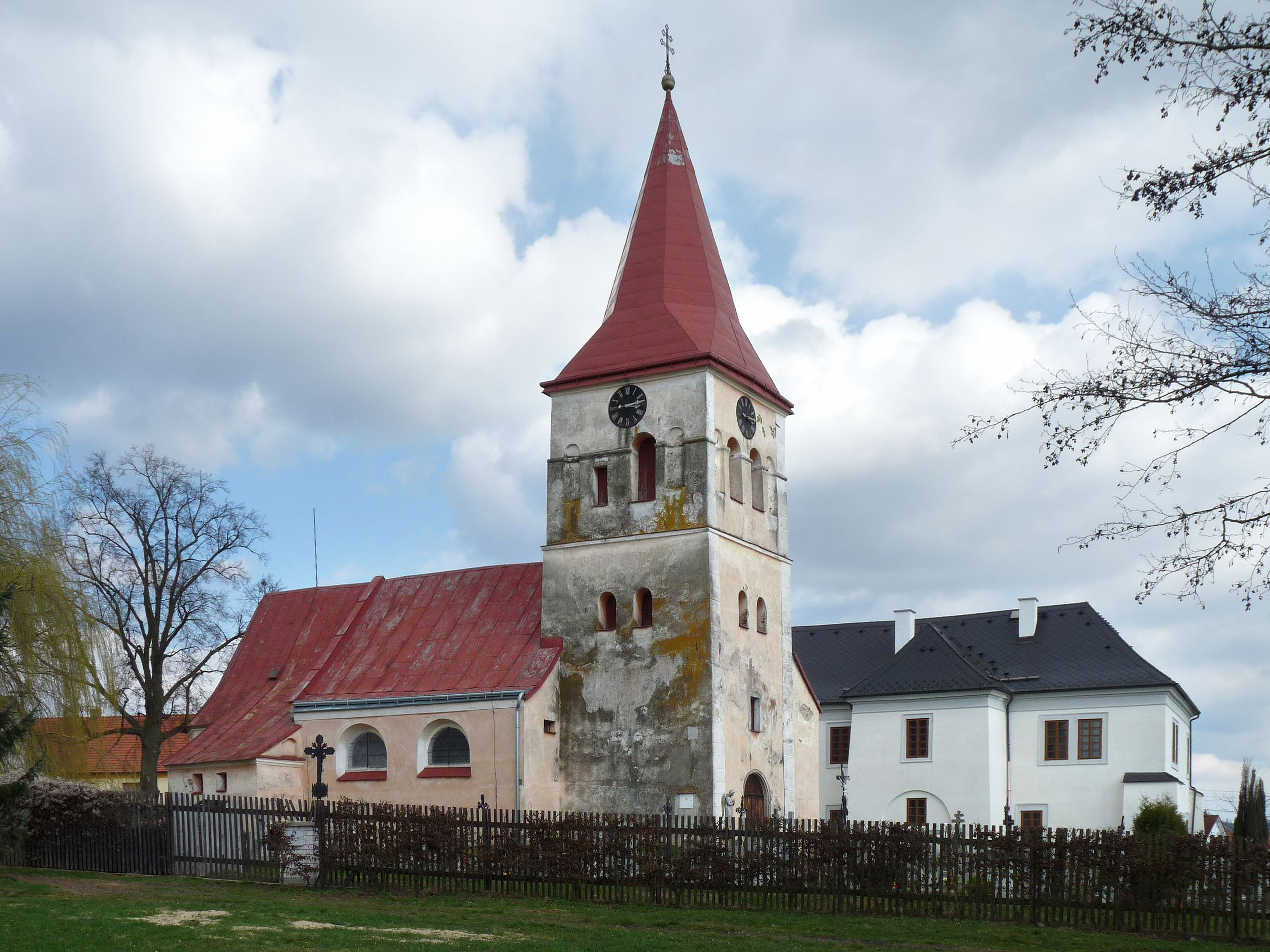 Church of the Nativity of the Virgin Mary in the municipality of of Pluhův Žďár, Jindřichův Hradec District, Czech Republic.